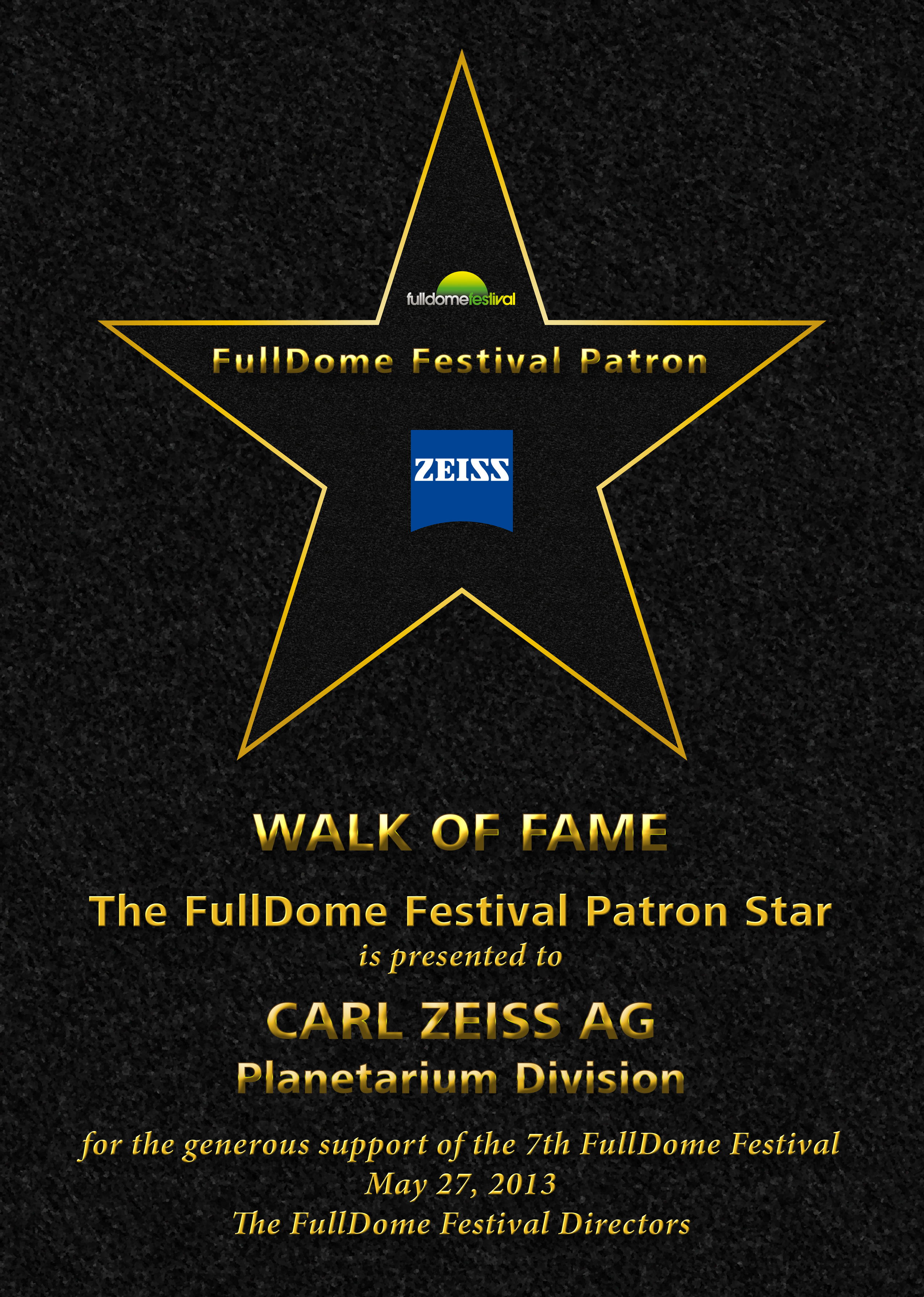 7th FullDome Festival Certificate of Sponsorship